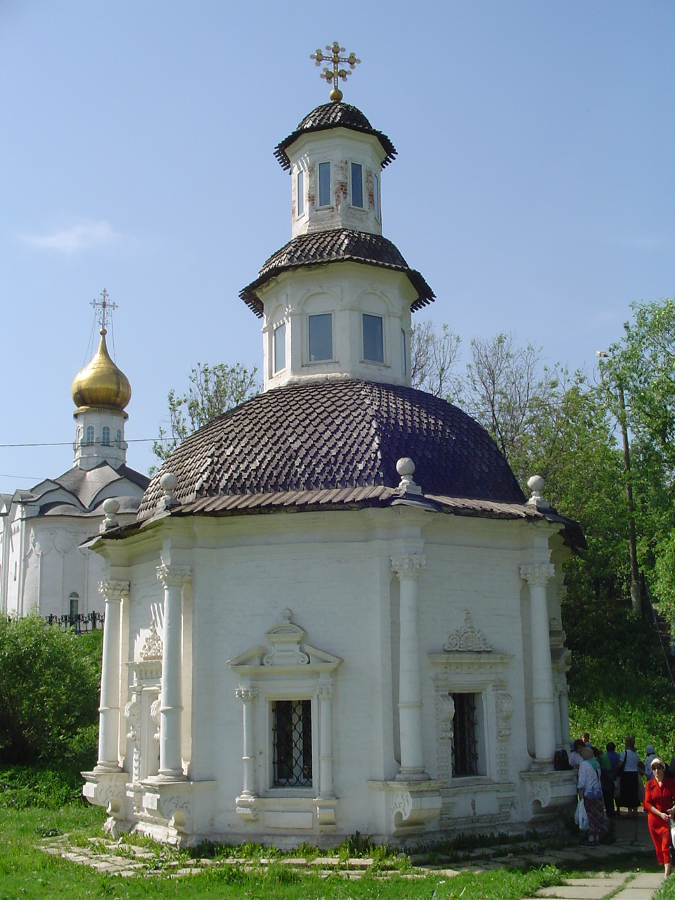 Chapel above the Pyatnitsky water well in Sergiev Posad